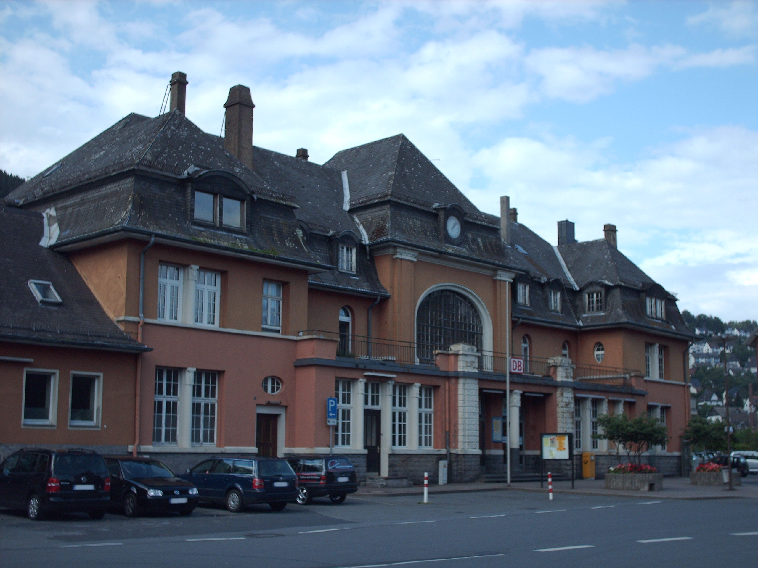 Werdohl station, Werdohl, Germany check usage